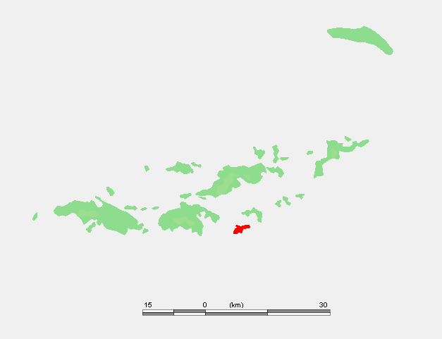 Caribbean - Norman Island.PNG